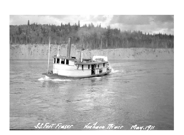 Photo taken 1911 #I-59796